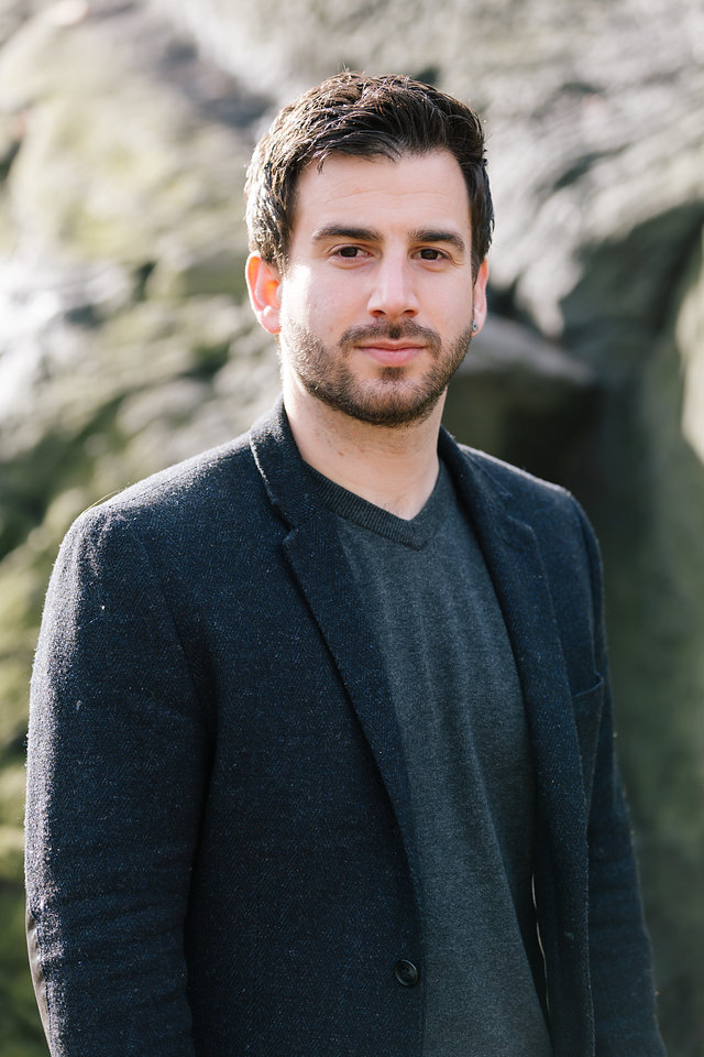 Israeli composer, Michael Seltenreich, posing in Central Park in New York in 2016.